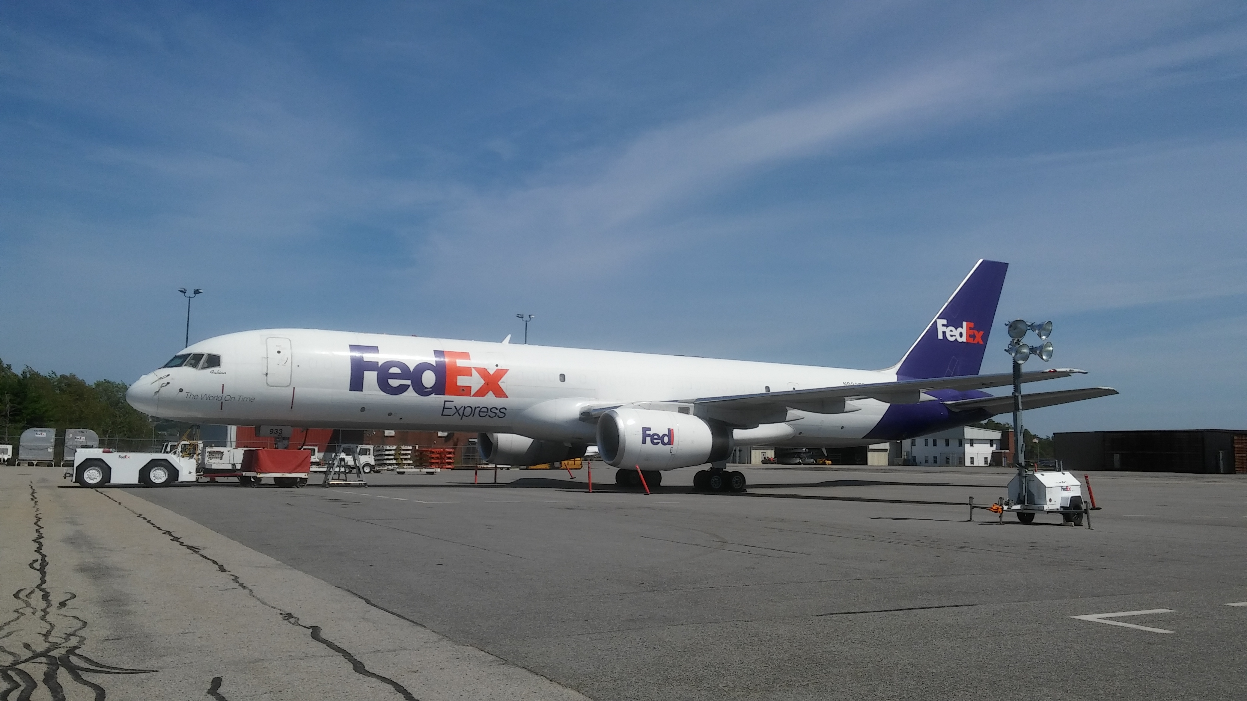 A close up shot on the Cargo Apron of a Boeing 757-200F and the Portland Jetport in Maine